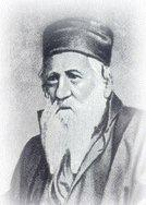 Judah Alkalai, picture scanned from a book which is over 100 years old. Picture is in PD-Israel.